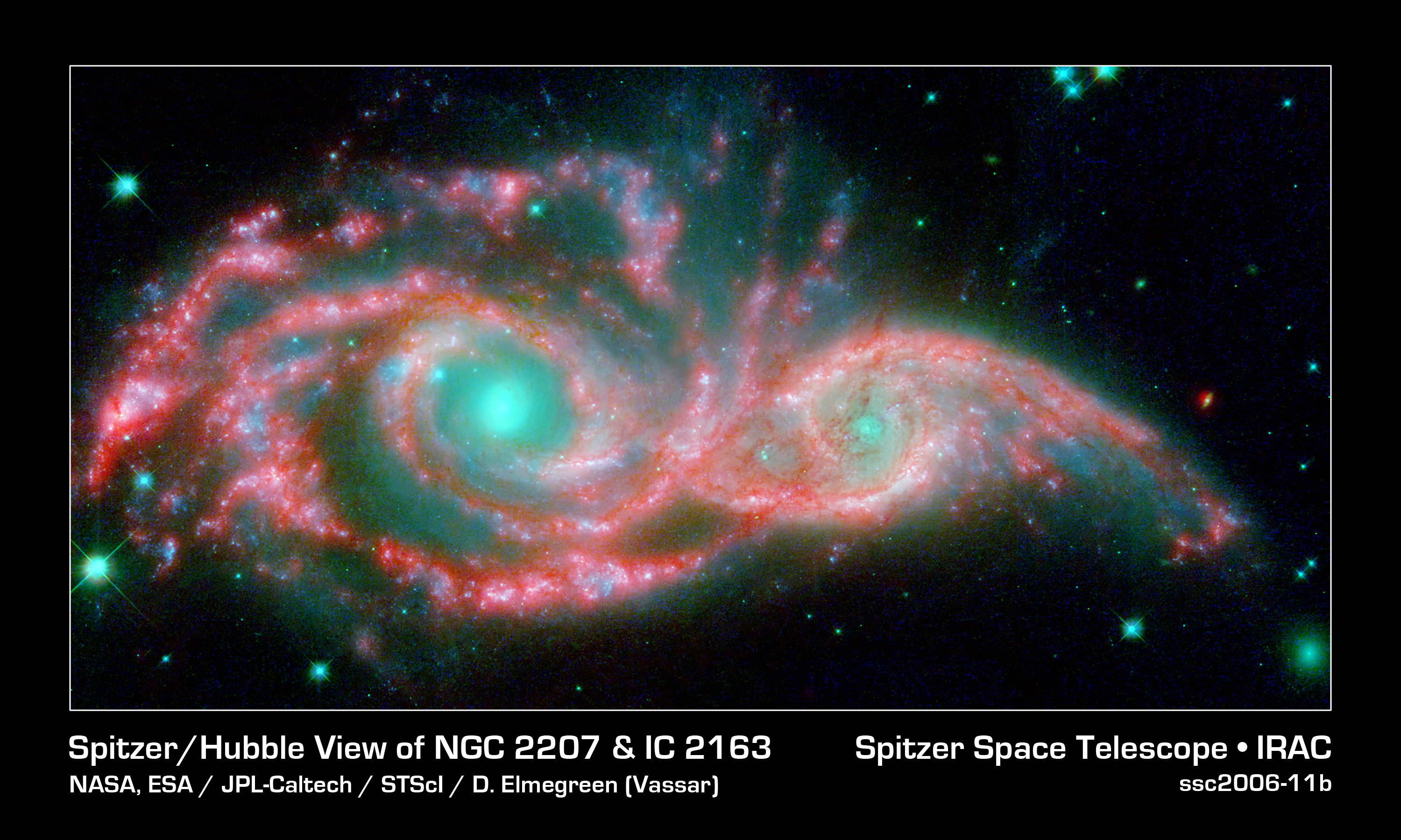 These shape-shifting galaxies have taken on the form of a giant mask. The icy blue eyes are actually the cores of two merging galaxies, called NGC 2207 and IC 2163, and the mask is their spiral arms. The false-colored image consists of infrared data from NASA's Spitzer Space Telescope (red) and visible data from NASA's Hubble Space Telescope (blue/green). NGC 2207 and IC 2163 met and began a sort of gravitational tango about 40 million years ago. The two galaxies are tugging at each other, stimulating new stars to form. Eventually, this cosmic ball will come to an end, when the galaxies meld into one. The dancing duo is located 140 million light-years away in the Canis Major constellation. The infrared data from Spitzer highlight the galaxies' dusty regions, while the visible data from Hubble indicates starlight. In the Hubble-only image (not pictured here), the dusty regions appear as dark lanes. The Hubble data correspond to light with wavelengths of .44 and .55 microns (blue and green, respectively). The Spitzer data represent light of 8 microns.